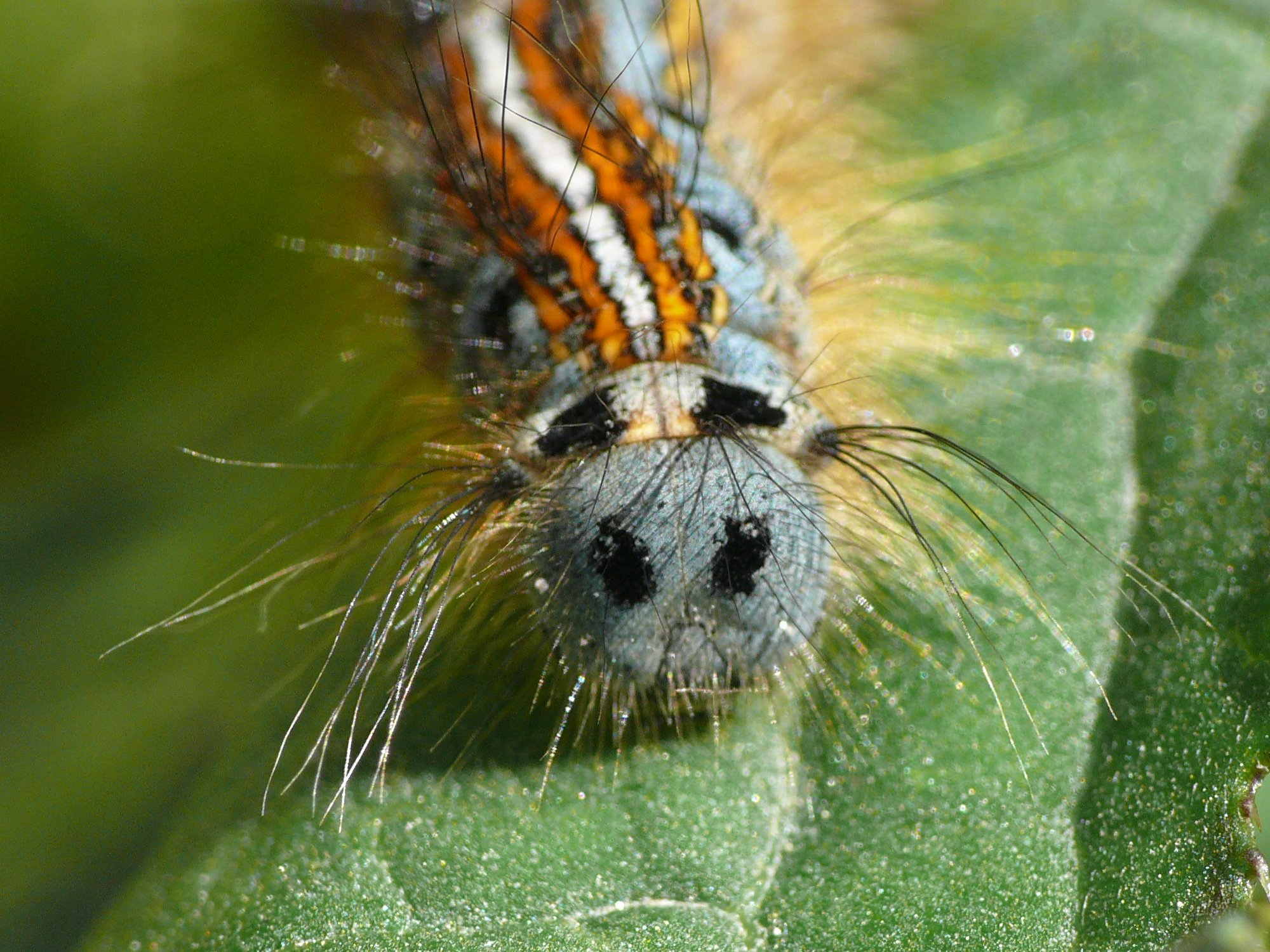 Heah of Lackey moth (Malacosoma neustria) caterpillar, Germany, Bavaria, Landkreis Ebersberg